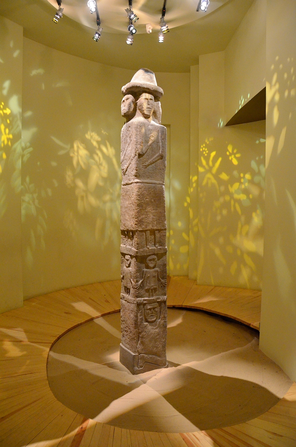 "Swiatowid (cult statue)", Kraków 2013